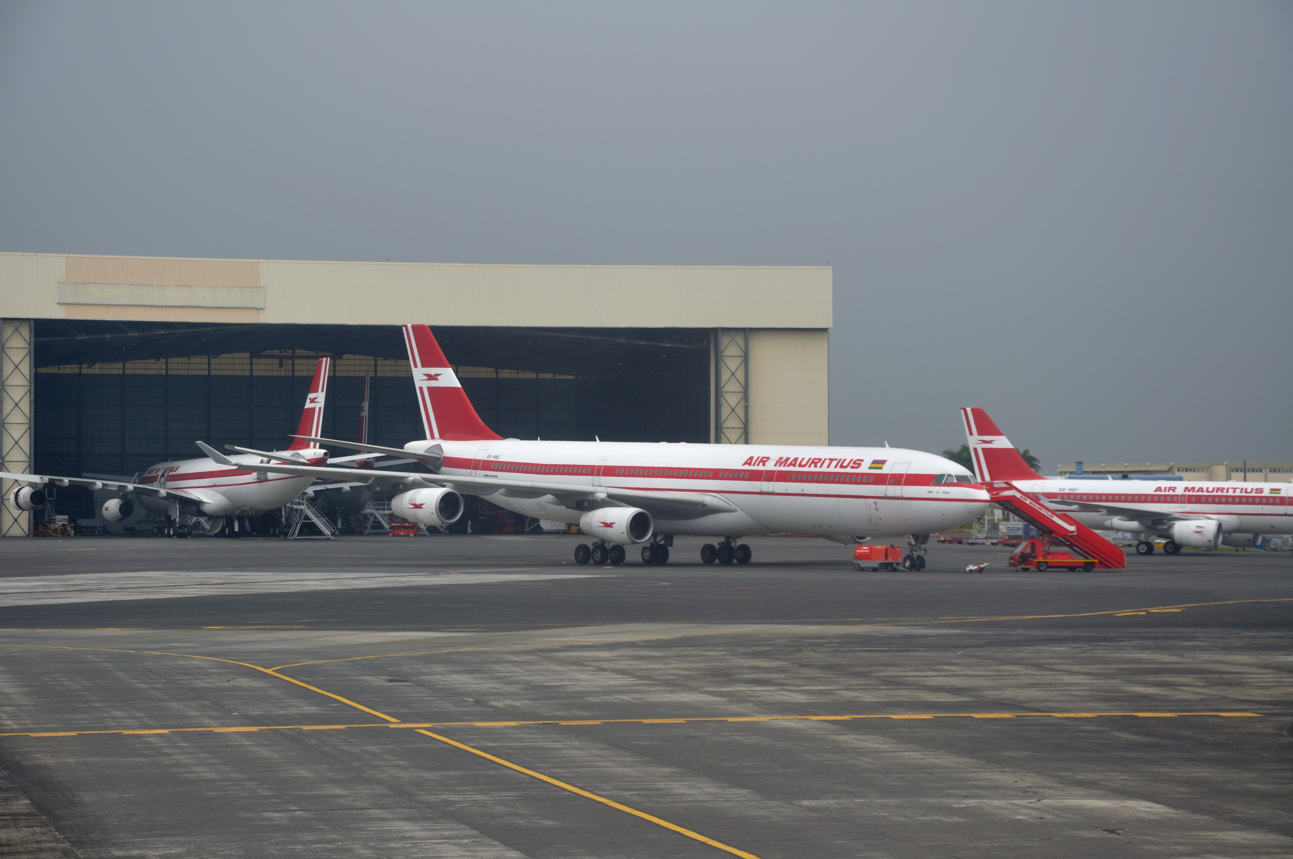 Mauritius, Part of the Air Mauritius fleet parked at the Sir Seewoosagur Ramgoolan International Airport in Mauritius